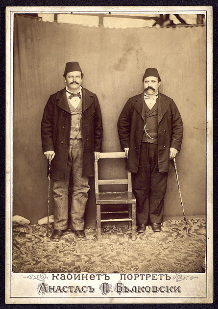 Danil_Kostovski_and_Hristo_Pangalov